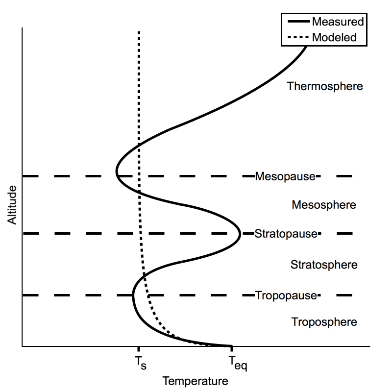 This image shows the approximate temperature profile in Earth's atmosphere, along with the temperature profile for a many-layered model of a greenhouse atmosphere.